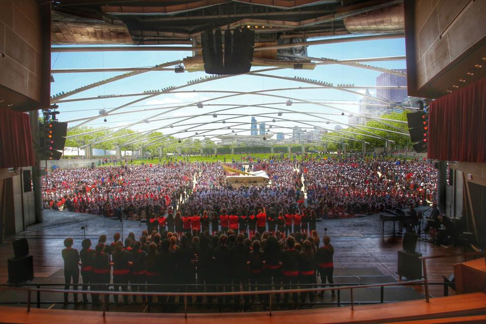 More than 4,000 singers perform at Jay Pritzker Pavilion in May 2015 for Chicago Children's Choir's annual Paint the Town Red concert.